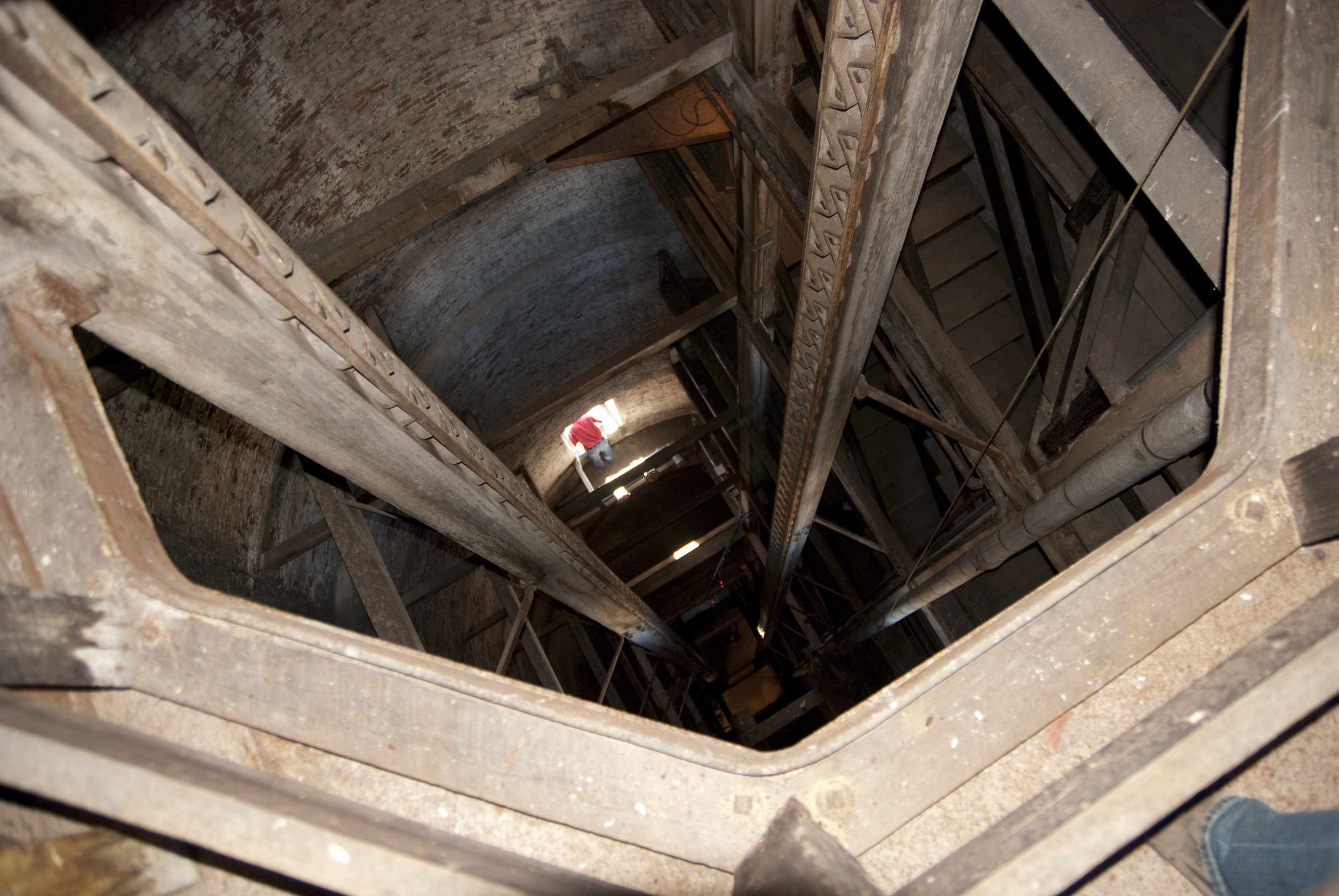 Photo courtesy of James Singewald.